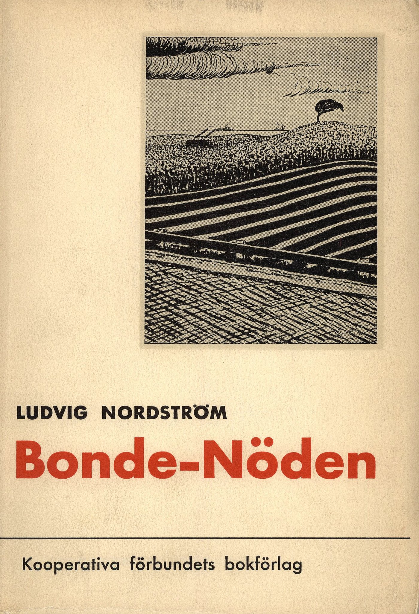 Book-cover for "Bondenöden" with illustration by the author